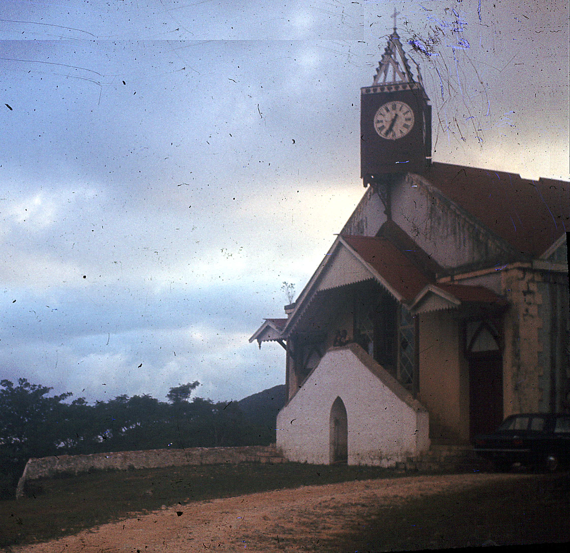 Mizpah Moravian Church, Jamaica.